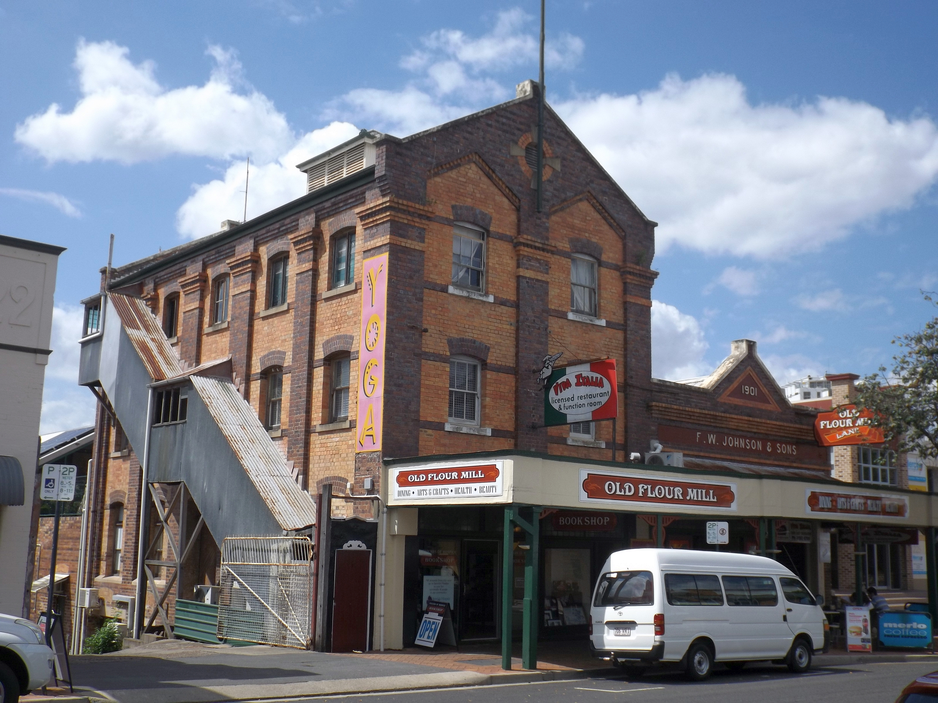 Photo of the Flour Mill in Ipswich, Queensland, Australia.